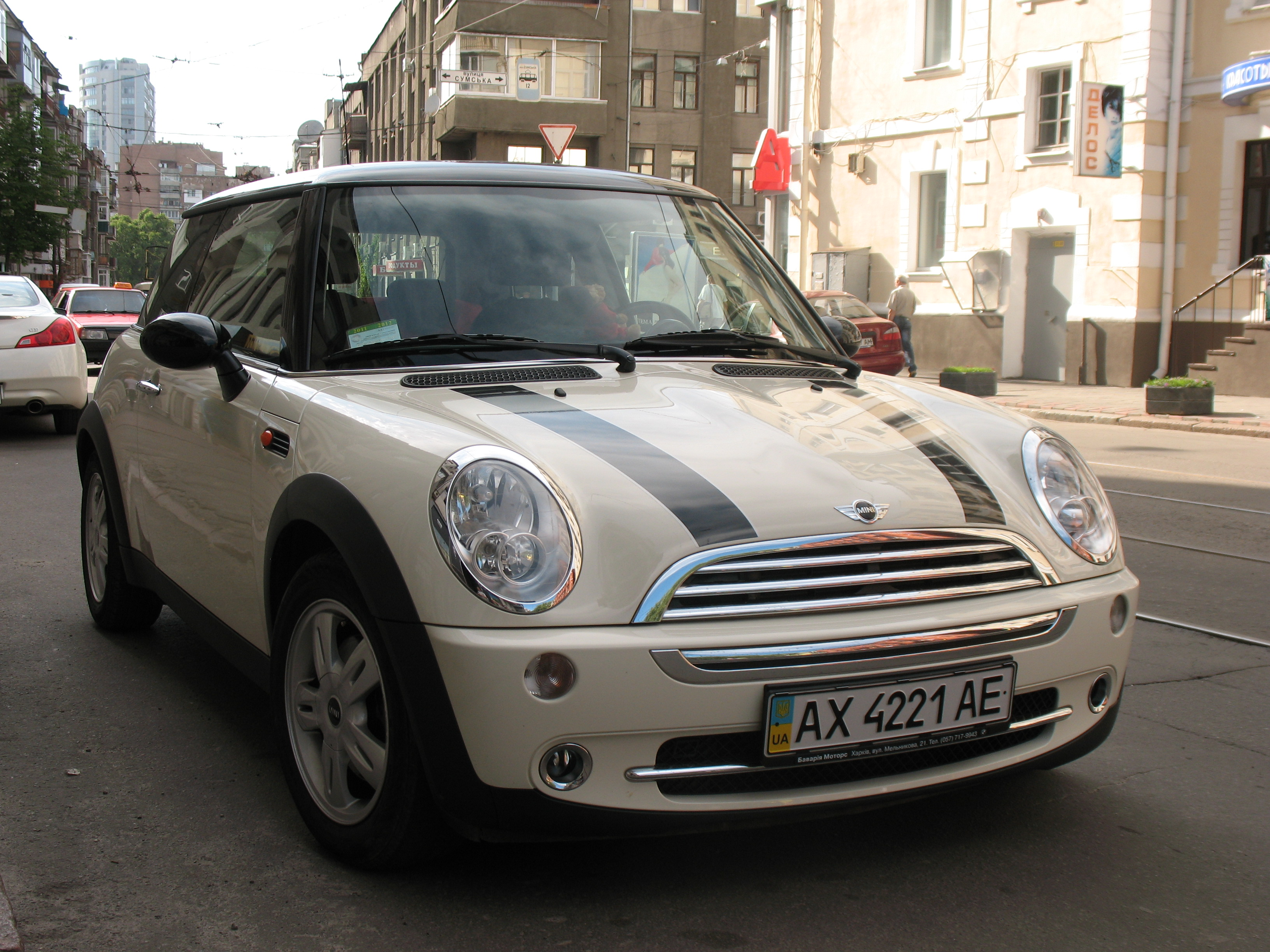 BMW Mini R50 in Kharkov City.